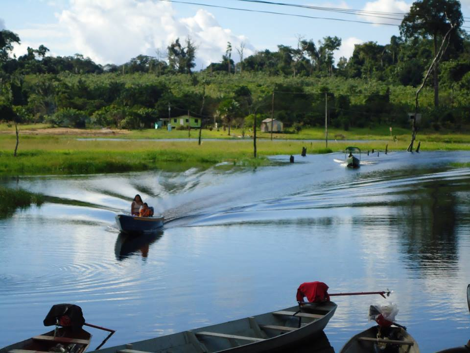 Careiro, Amazonas, Brazil.